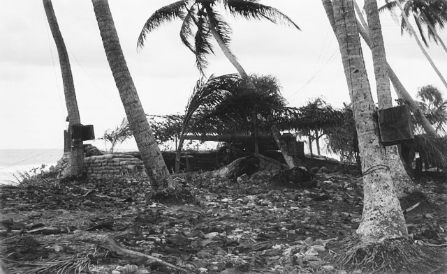 An aging M1918 155mm gun, manned by the 5th Defense Battalion, stands guard over the Pacific surf from amid the beach-front palms at Funafuti in the Ellice Islands, the first stop in the Pacific following the unit's departure from Iceland.